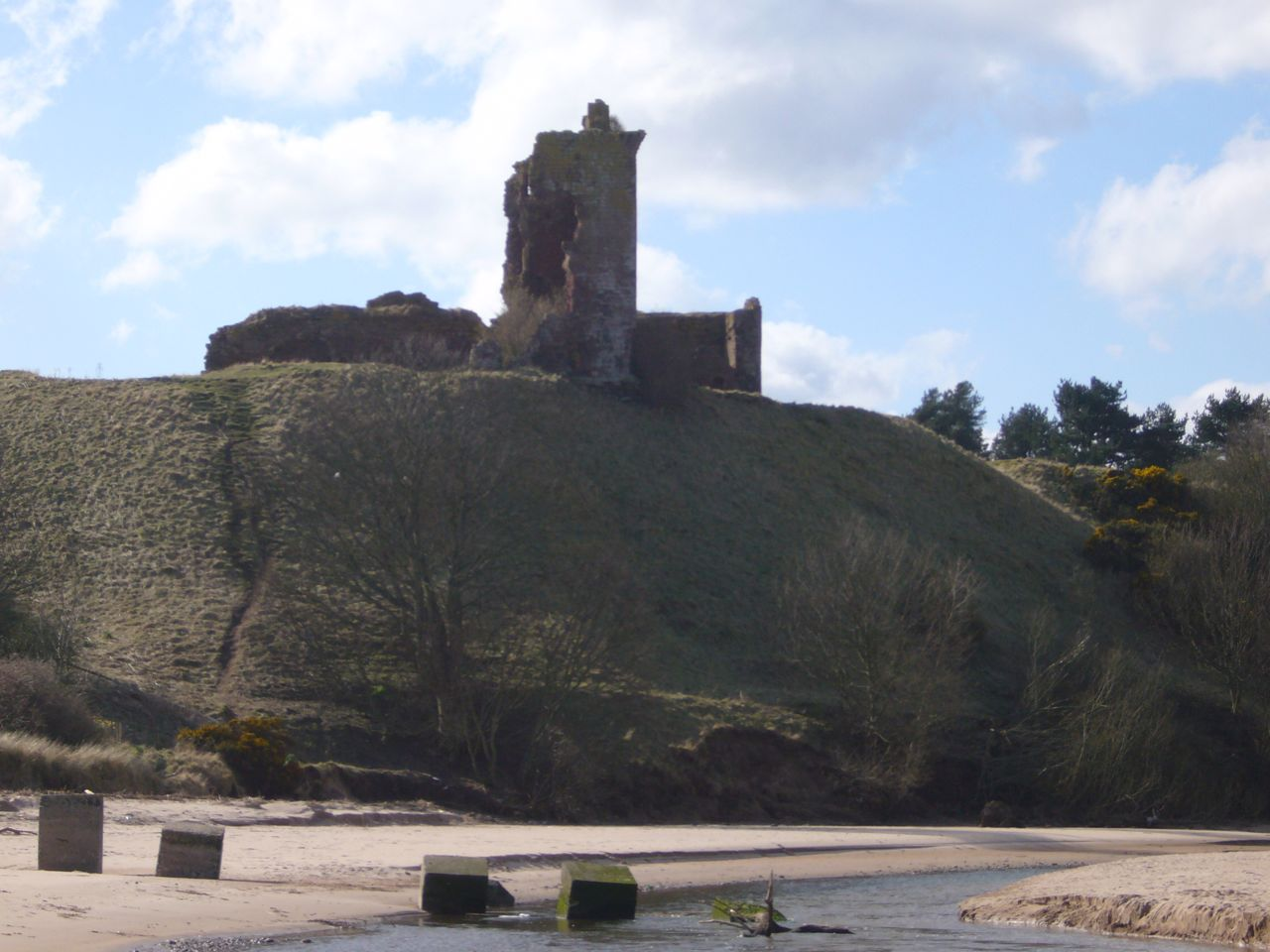 Lunan Castle taken from Lunan Bay